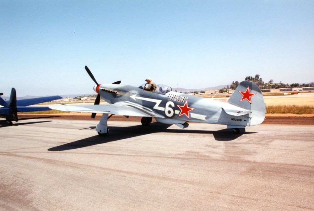 PictionID:42764785 - Title:Yakovlev Yak-9UM ADDITIONAL INFORMATION: (V-1710), N529SB, No. 6. Photo taken of the aircraft on the runway at the eighth annual Wings Over Gillespie air show ran May 2-5 at Gillespie Field in El Cajon, CA, in May 3, 2002. The Yak-9 is widely recognized as one of the best fighters of the Second World War. While this is clearly a sweeping statement (and of course within individual types of aircraft, there were a wide variety of models, differing greatly from each other in performance), we feel it is broadly true. - Catalog:15_003497 - Filename:15_003497.tif - ---- Image from the Charles Daniels Photo Collection album "Monino Indoors '93" which includes images taken by Mr. Daniels when he visited the Monino Museum in 1993.----PLEASE TAG this image with any information you know about it, so that we can permanently store this data with the original image file in our Digital Asset Management System.------------SOURCE INSTITUTION: San Diego Air and Space Museum Archive